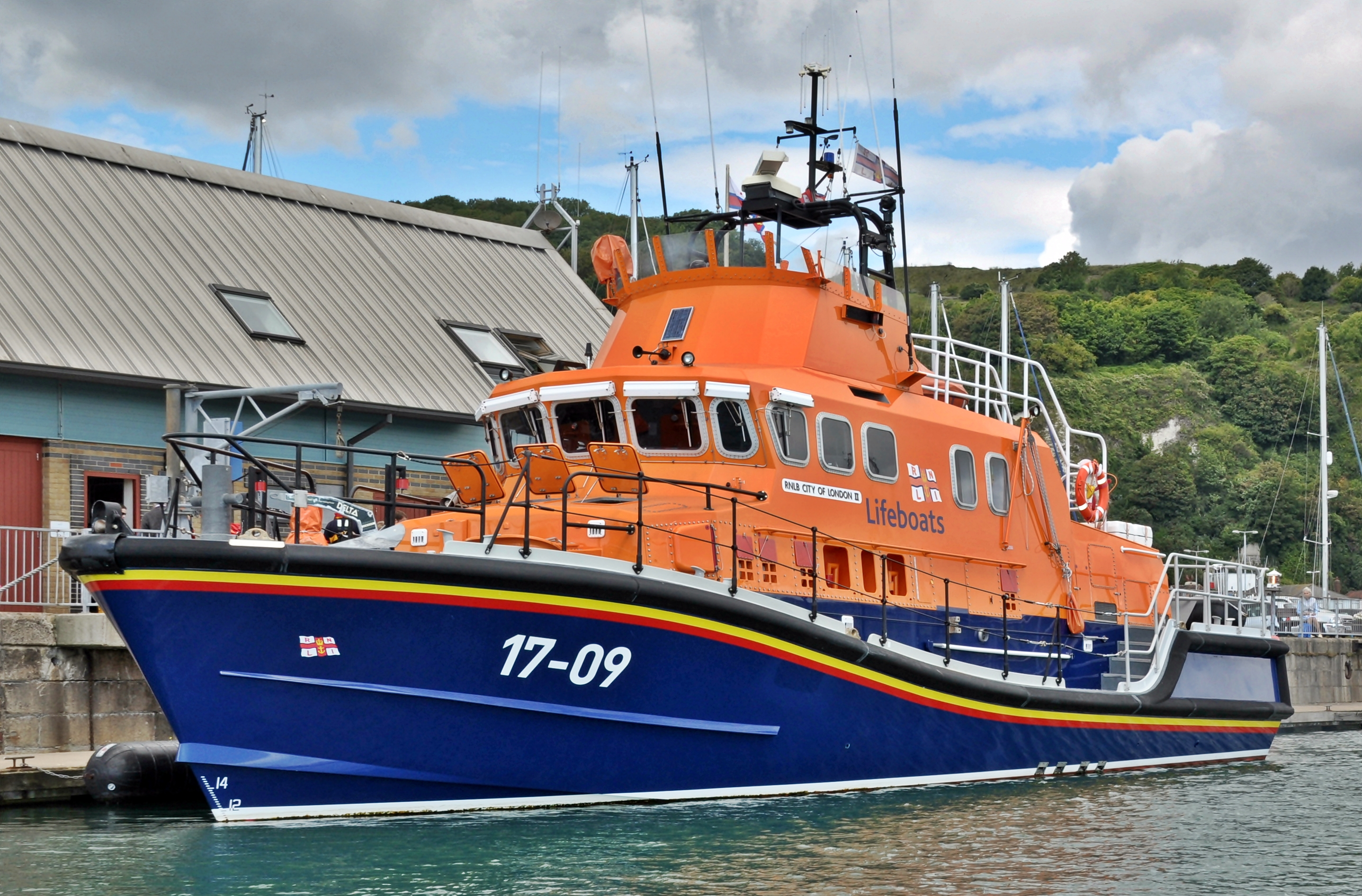 The Dover Lifeboat, Severn Class 17-09 City of London II